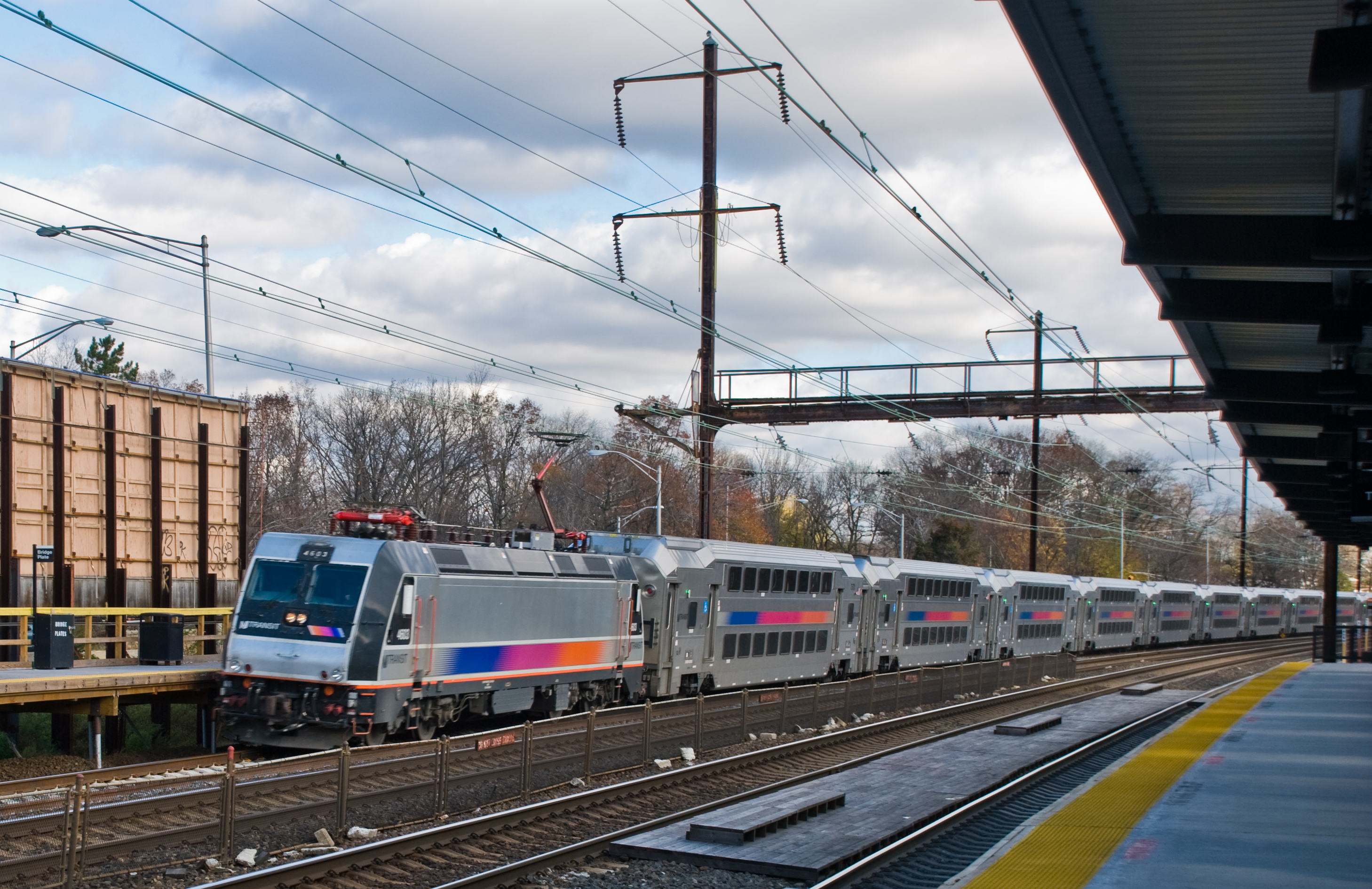 NJT ALP-46 #4603 at Metropark station with a string of Multilevel cars in November 2008